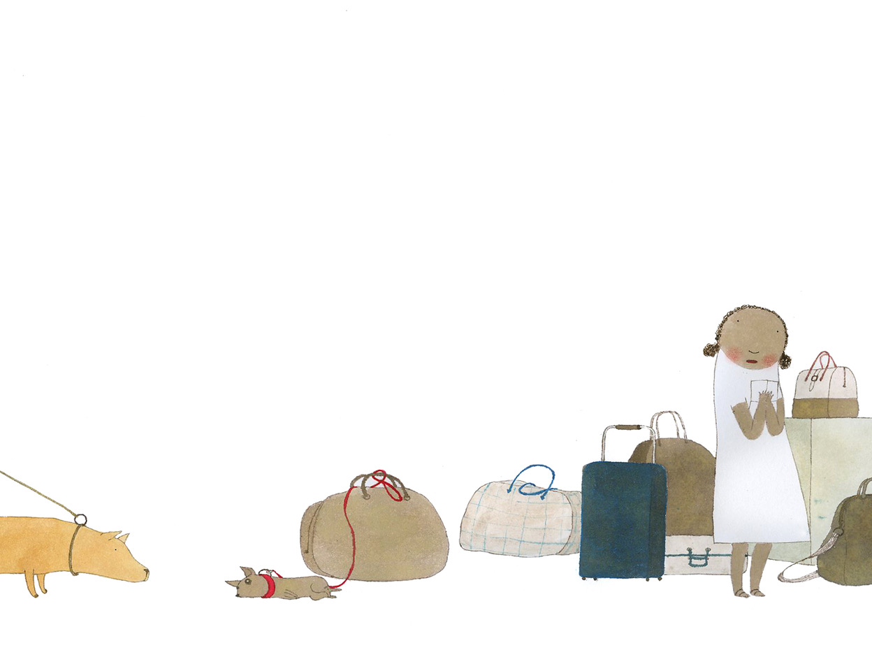 Usoa(fictional character) by Elena Odriozola